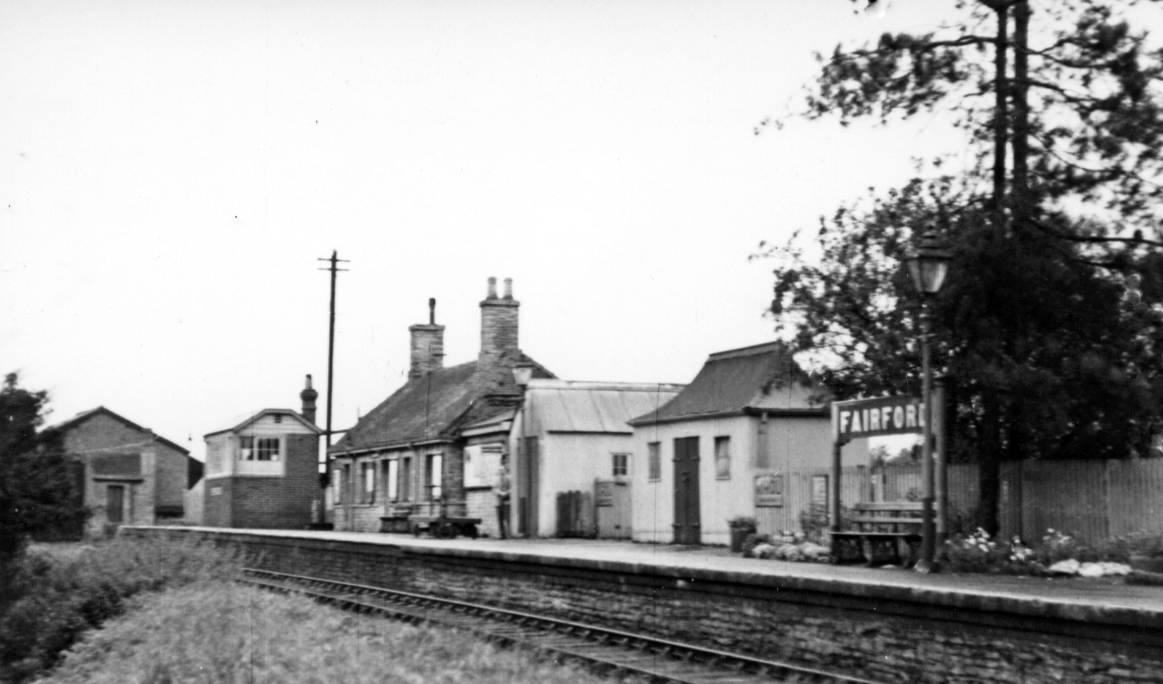 Fairford station, 1950View west, towards the buffer-stops, which were c. 200 yards ahead, the original line, from Oxford via Witney having been intended to continue to Cheltenham. The line was closed 18/6/62.